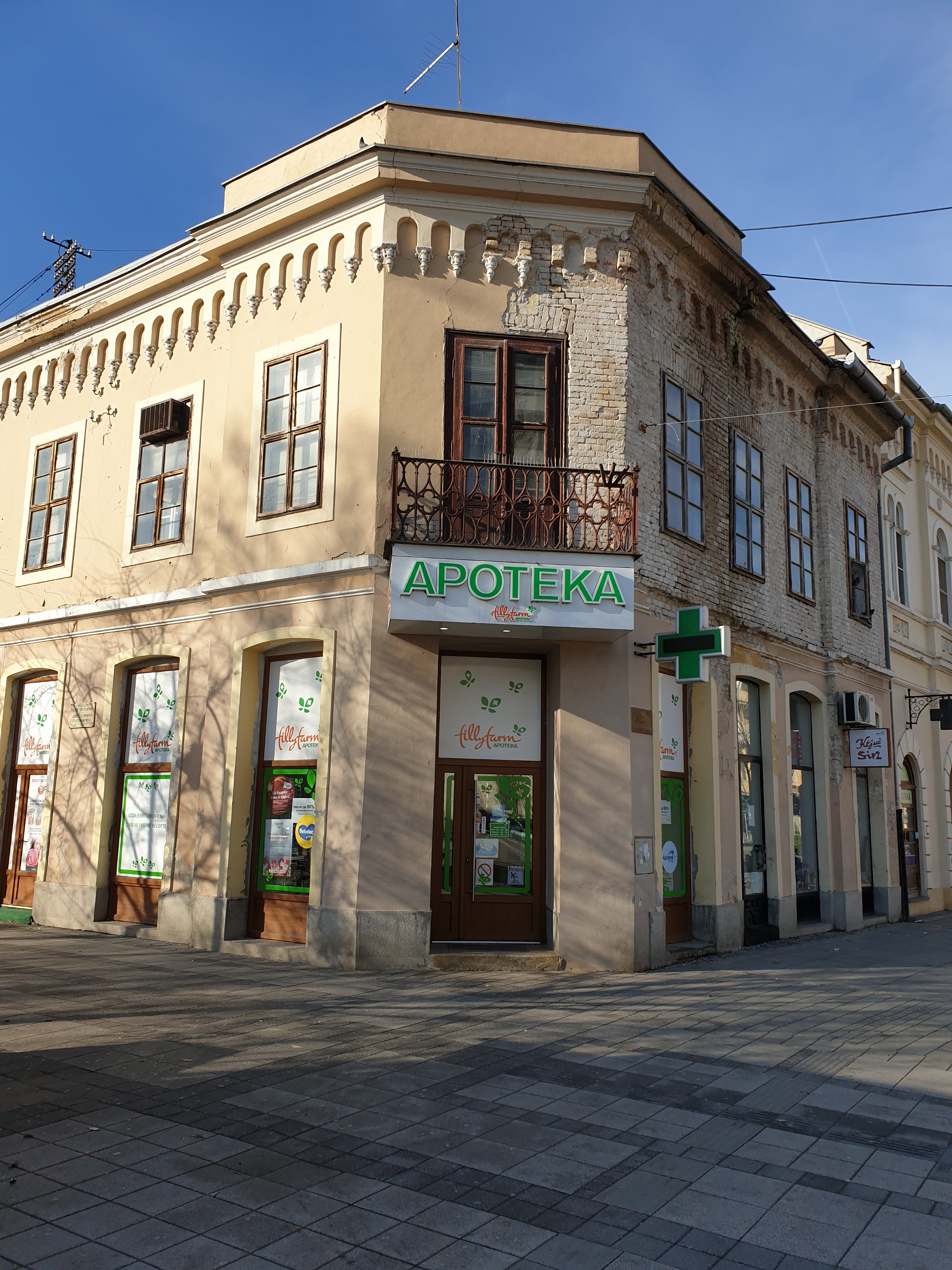 Kuća Đule Falcionea